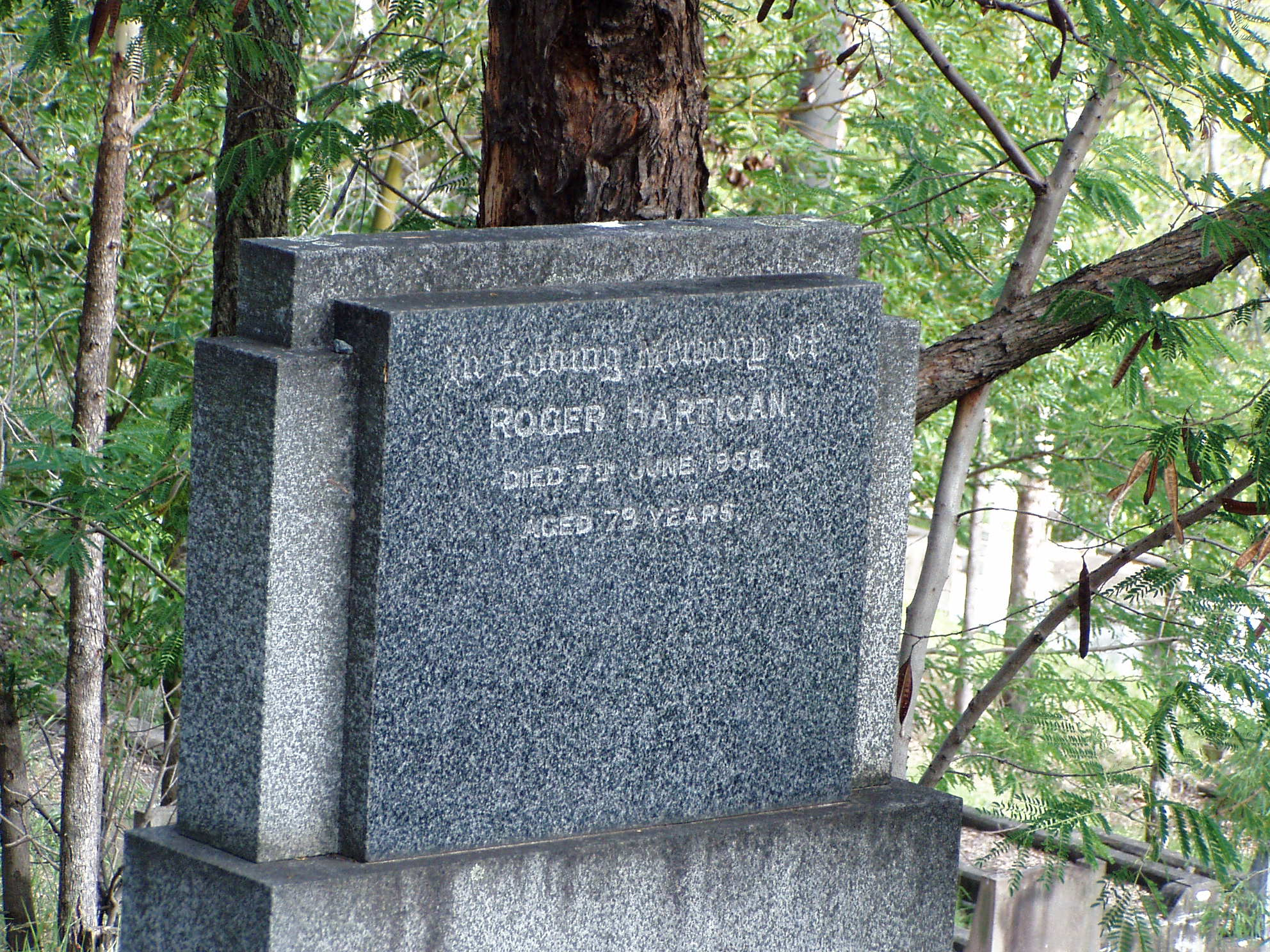 Headstone of Roger Hartigan, Australian Test Cricketer. Hartigan is buried in Toowong Cemetery in Brisbane Australia